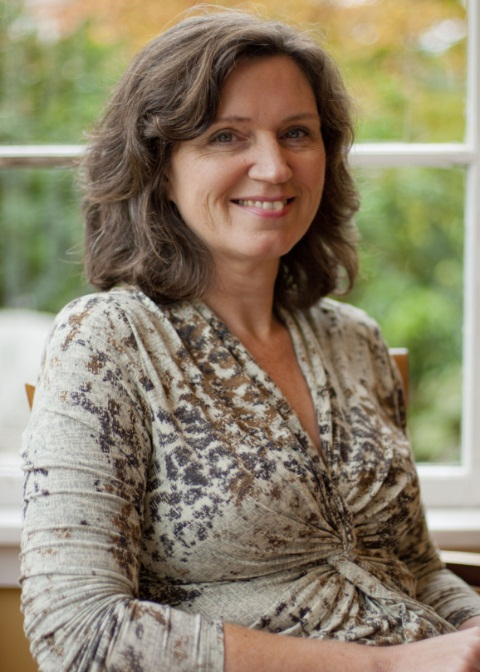 Kathleen Flenniken, Washington State Poet Laureate (2012-2014)